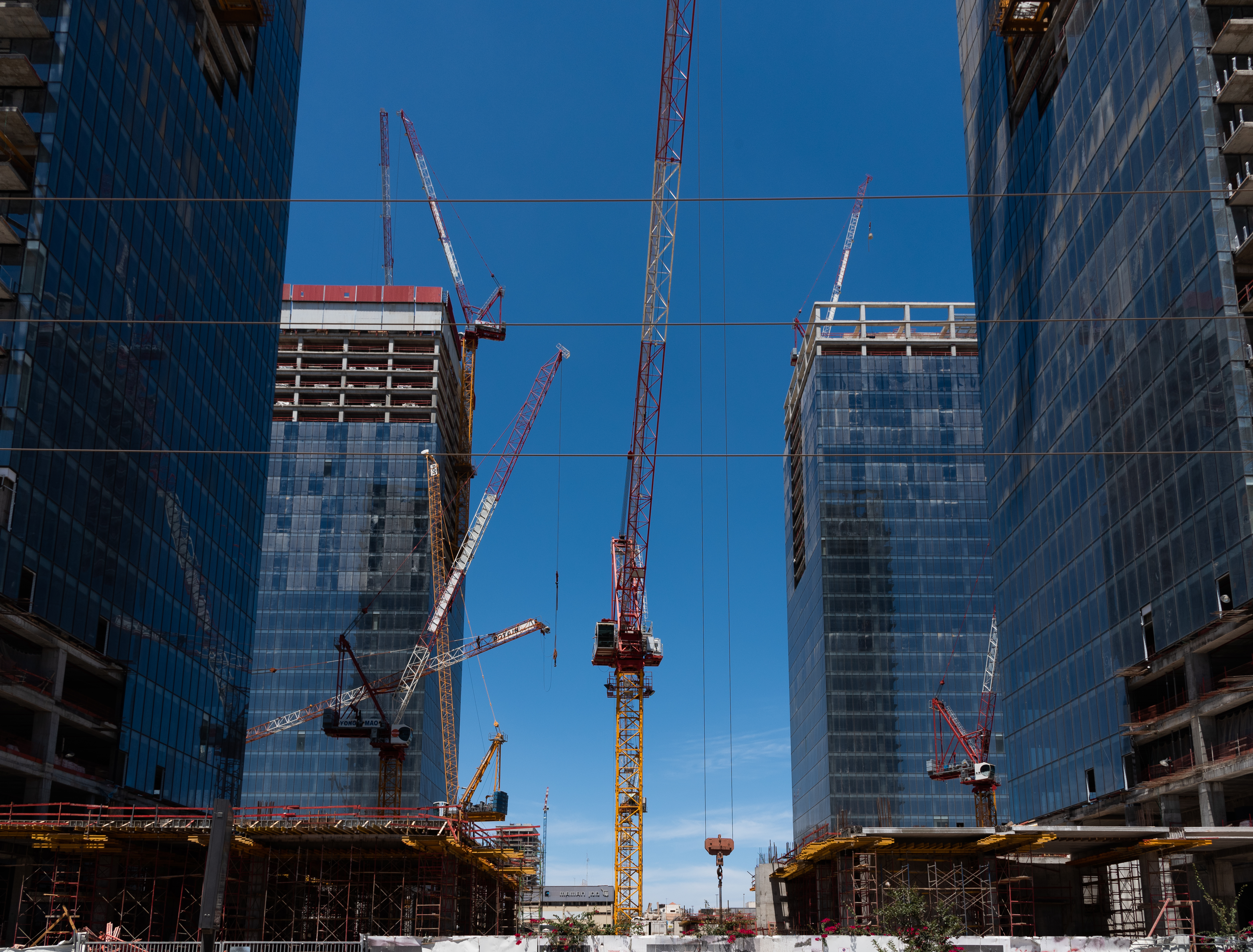 BSR City towers in Petah Tikva, Israel, as seen from Totzeret HaAretz Street